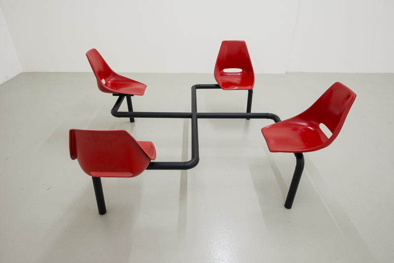 hate free